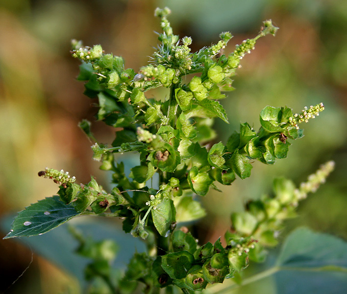 Acalypha indica L. (syn. A. bailloniana Müll.Arg.; A. canescens Wall.; A. caroliniana Blanco; A. chinensis Benth.; A. ciliata Wall.; A. cupamenii Dragend.; A. decidua Forssk.; A. fimbriata Baill.; A. indica var. bailloniana (Müll.Arg.) Hutch.; A. indica var. minima (H.Keng) S.F.Huang & T.C.Huang; A. minima H.Keng; A. somalensis Pax; A. somalium Müll.Arg.; A. spicata Forssk.; Cupamenis indica (L.) Raf.; Ricinocarpus baillonianus (Müll.Arg.) Kuntze; R. deciduus (Forssk.) Kuntze; R. indicus (L.) Kuntze)- Rudra, Indian acalypha, Kuppu, Khokali- in Hyderabad, India.